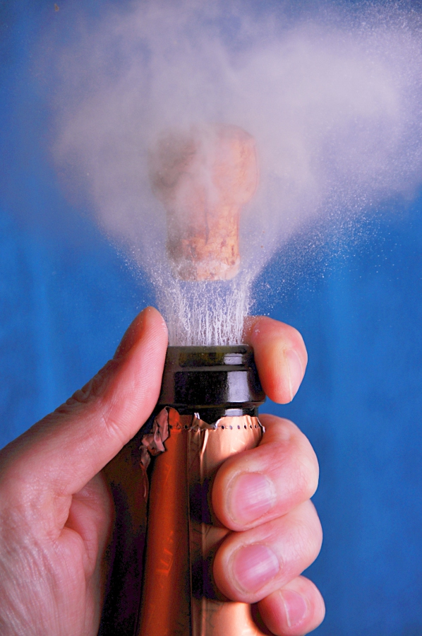 Champagne uncorking photographed with a high speed air-gap flash